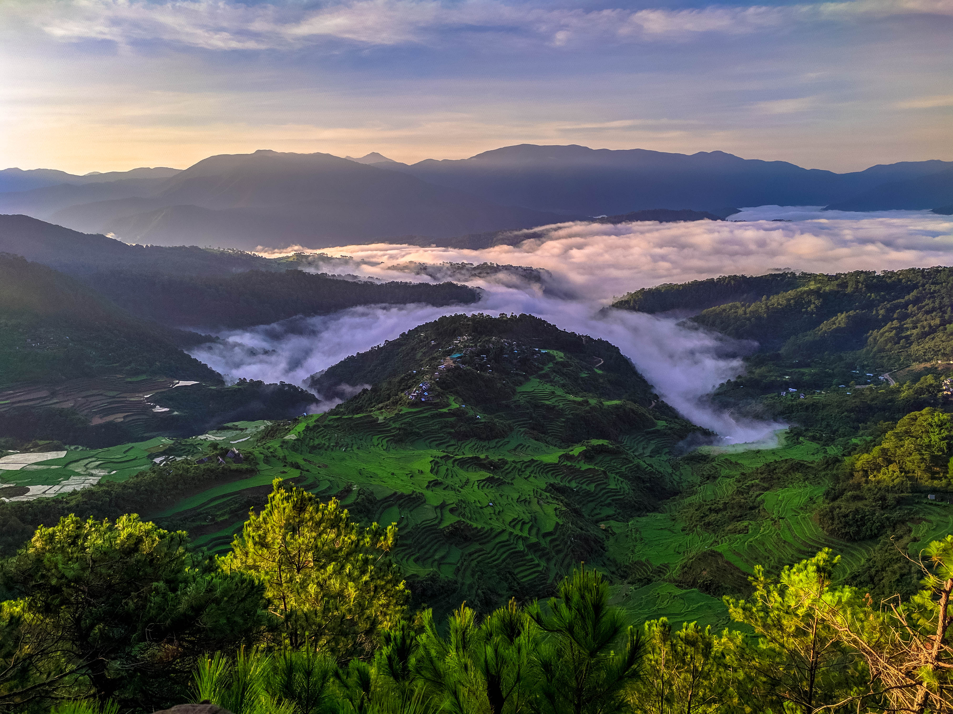 The Maligcong Rice Terraces is known for its stone walls which make the terraces more stable and stand erosion.